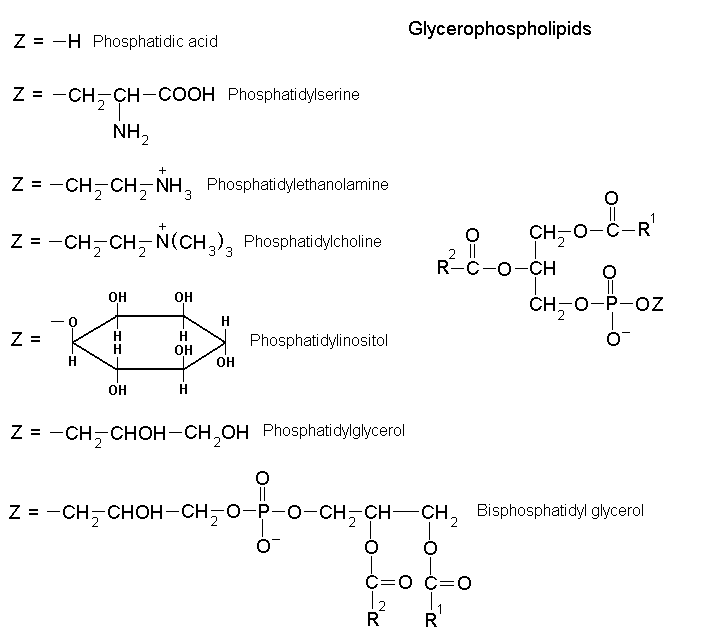 Glycerophospholipids